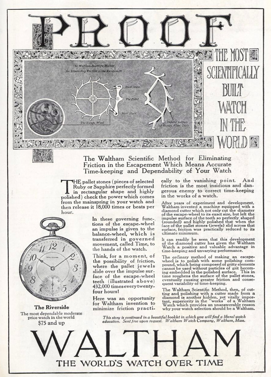 Advertisement for Waltham watch, 1920